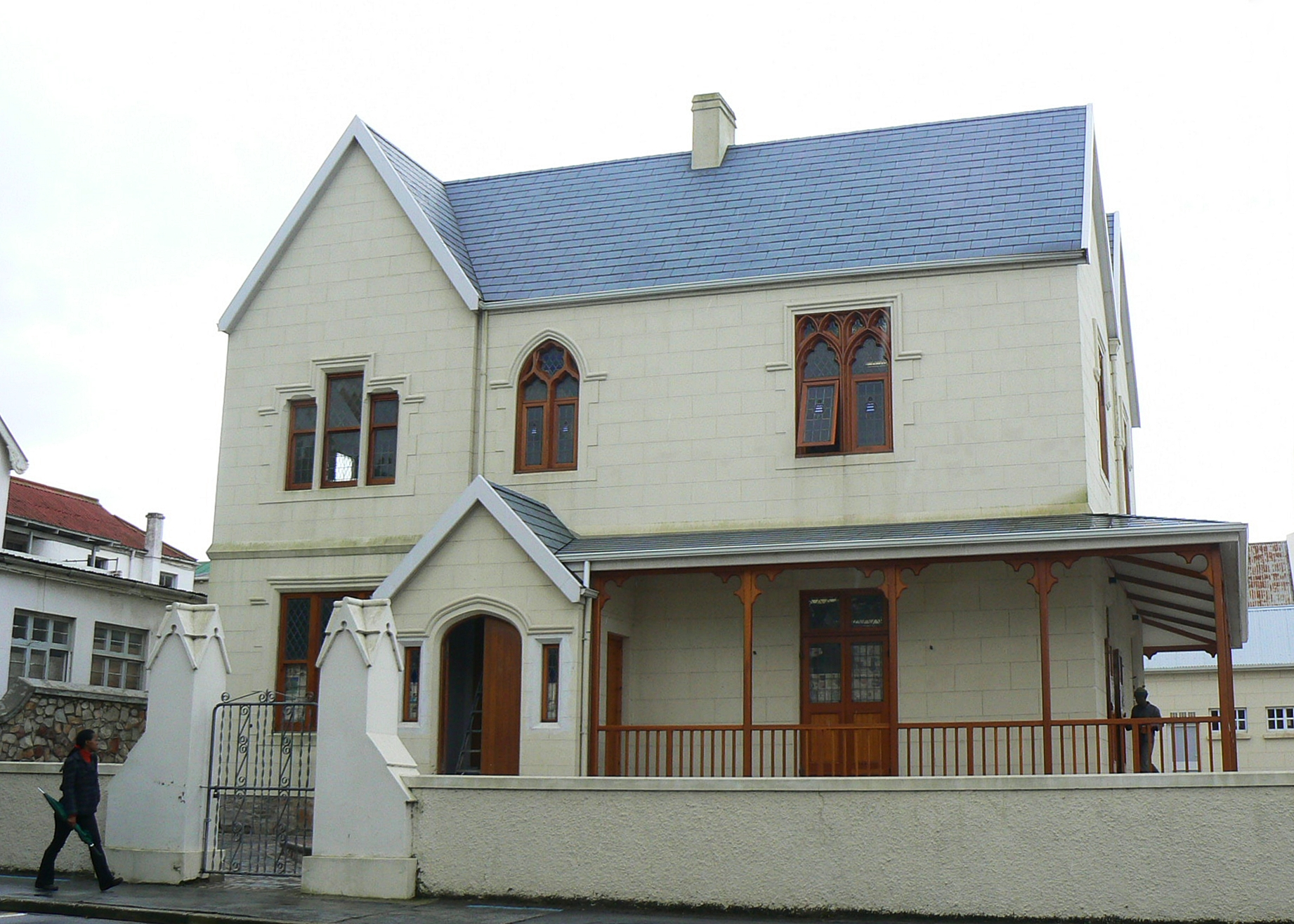 Old Pasonage, Pearson Street, Port Elizabeth, South Africa This media shows a South African Protected Site with SAHRA file reference 9/2/073/0021-001.